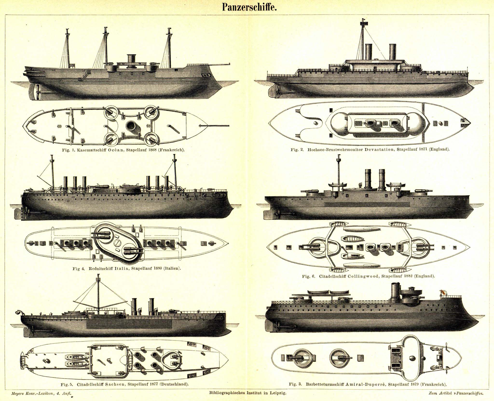 Upper row: French ironclad Océan & British ironclad HMS Devastation (rather incorrect). Middle row: Italian battleship Italia and British battleship HMS Collingwood. Lower row: German battleship Sachsen and French battleship Amiral Duperré.